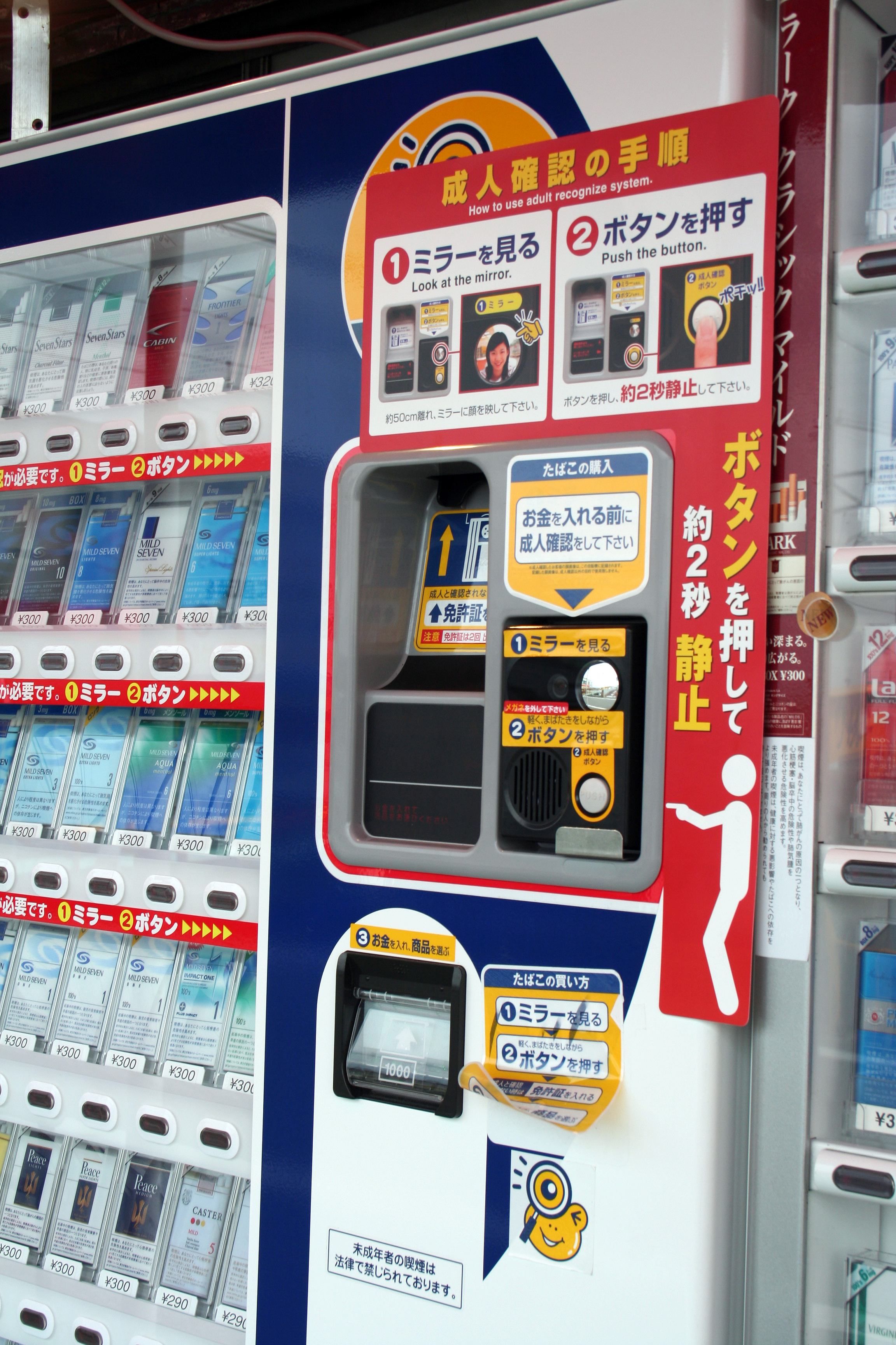 Cigarette vending machine that a face recognition system is provided.